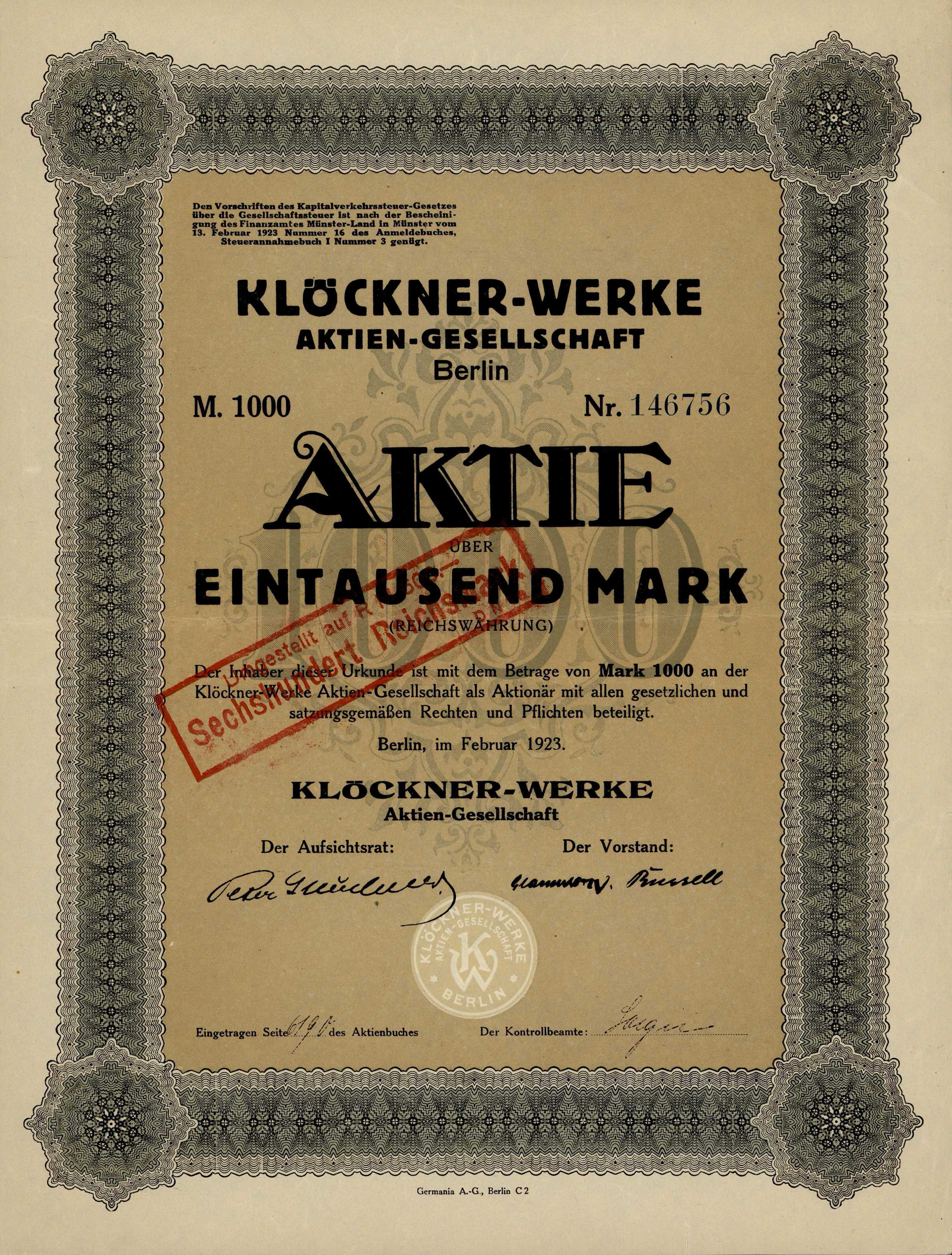 Share of the Klöckner-Werke AG, issued February 1923